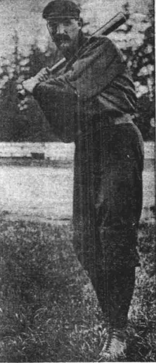 Professional basbeall player Tom Parrott as a memebr of the Portland Greengages during the 1903 season.